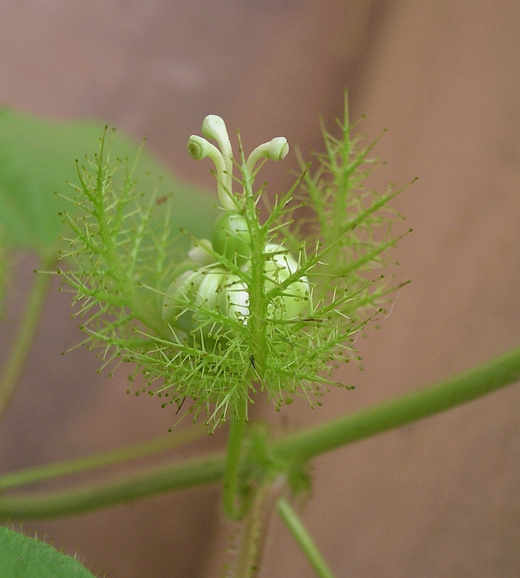 Passiflora foetida flower, Bangalore